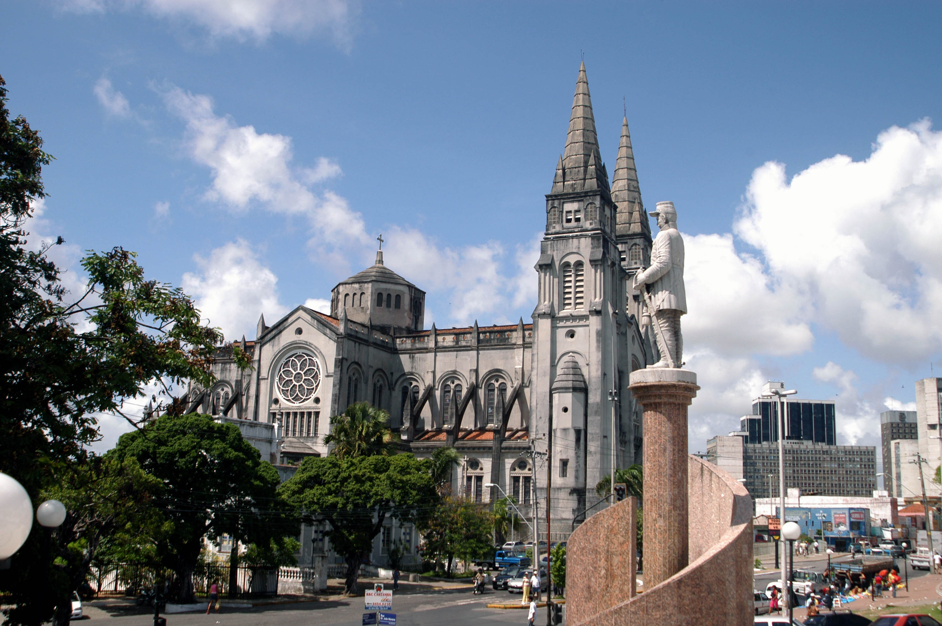 THIS VIEW IS OBTAINED FROM THE FORT IN FORTALEZA